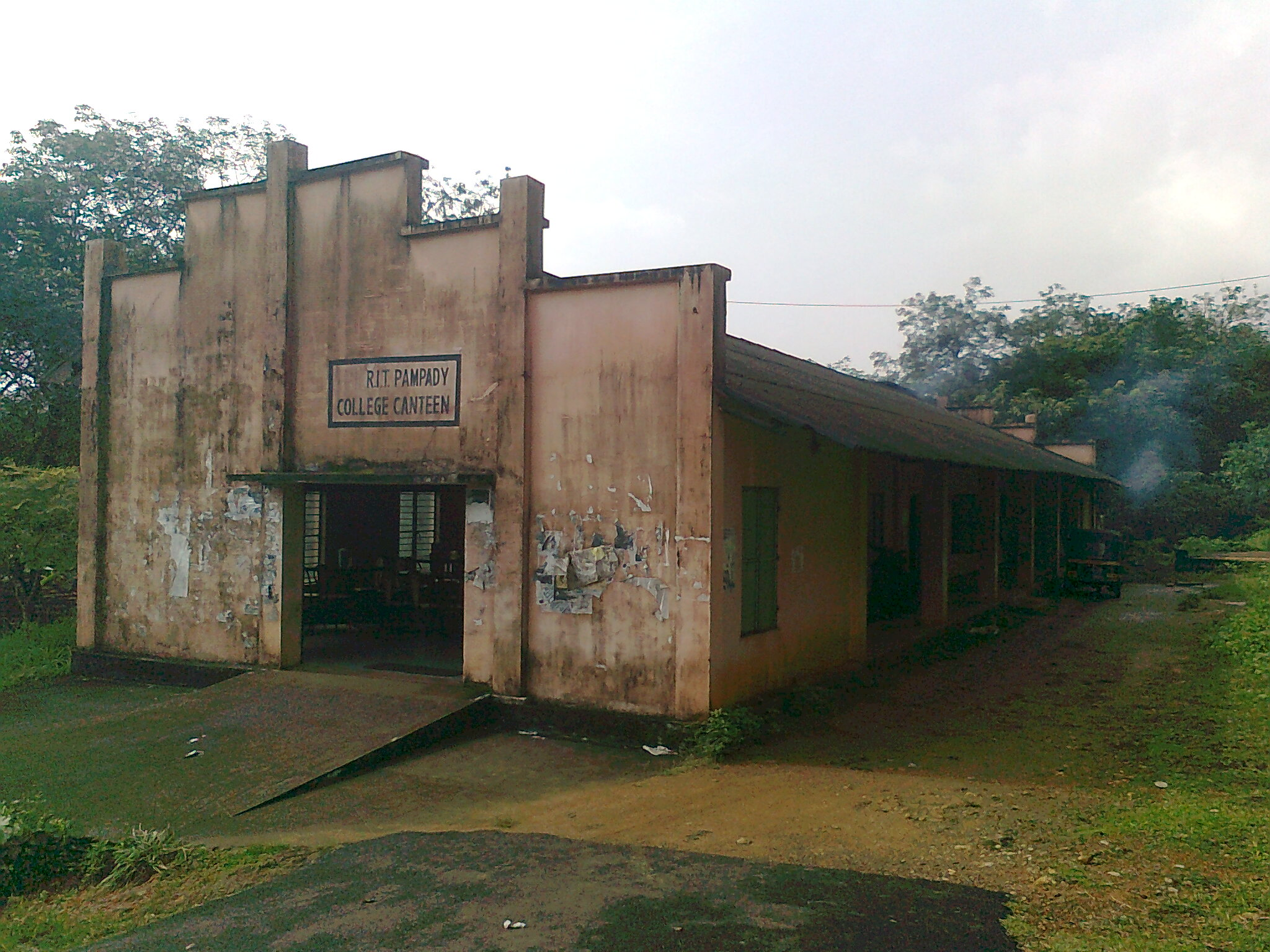 The front view of RIT College Canteen.